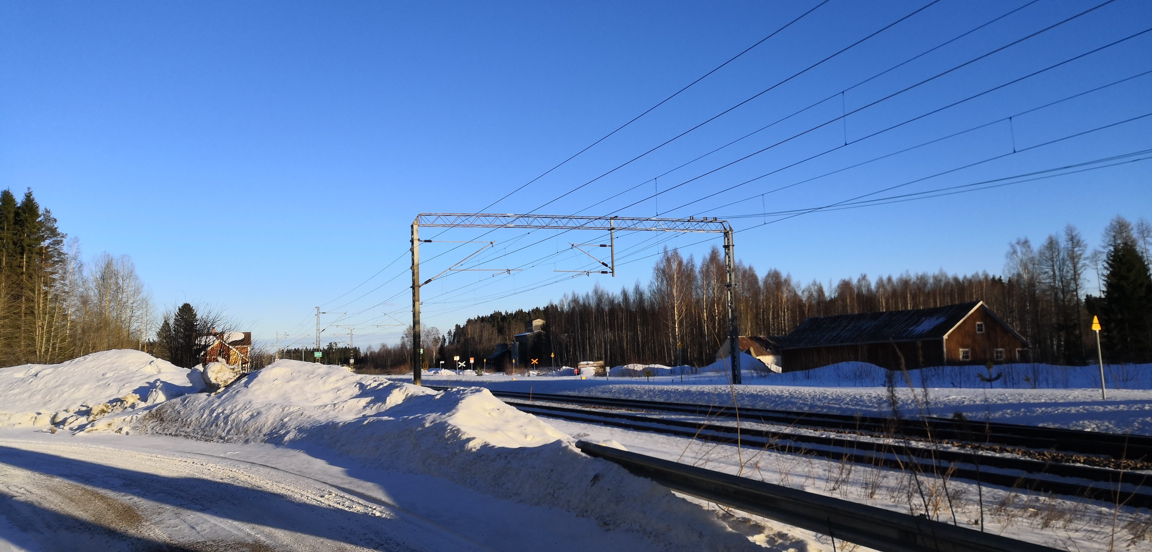 Utin liikennepaikka ja vanha rautatieasema sekä ratapiha maaliskuussa 2019